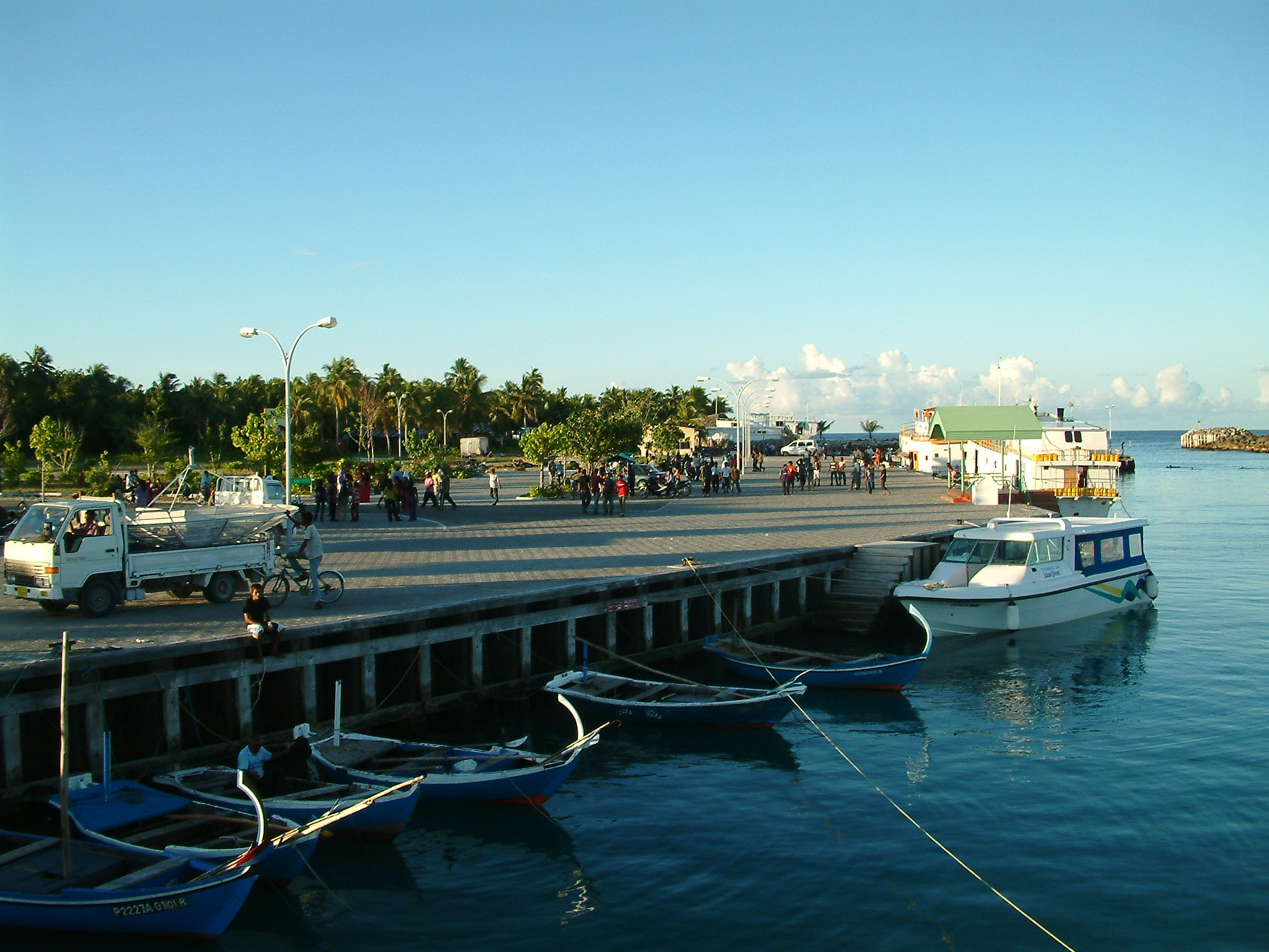 The new harbor in Fuvahmulah, Maldives. By Nattu